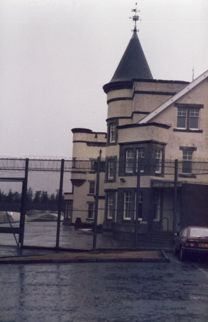 HM Prison Dungavel Despite the description of being an "open prison", it looked closed from the outside world's point of view